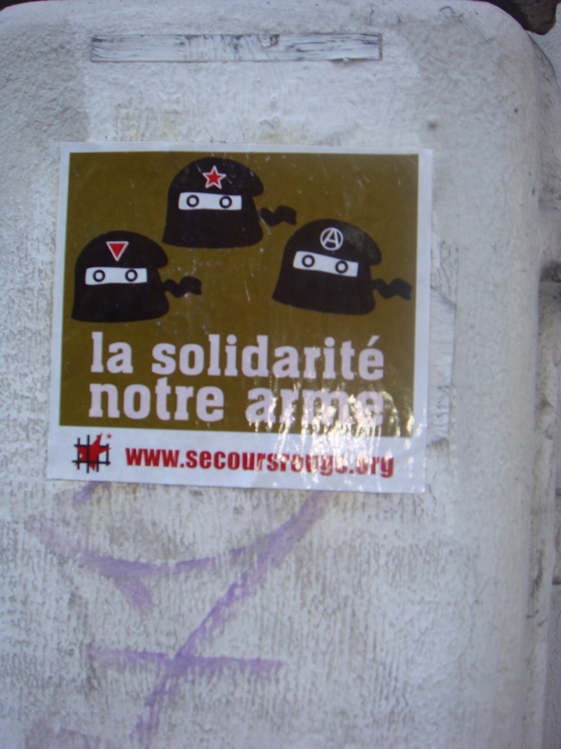 "Secours rouge" sticker in Brussels